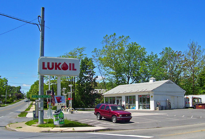 Lukoil gas station at Route 94 and Old Forge Hill Road, New Windsor, New York.